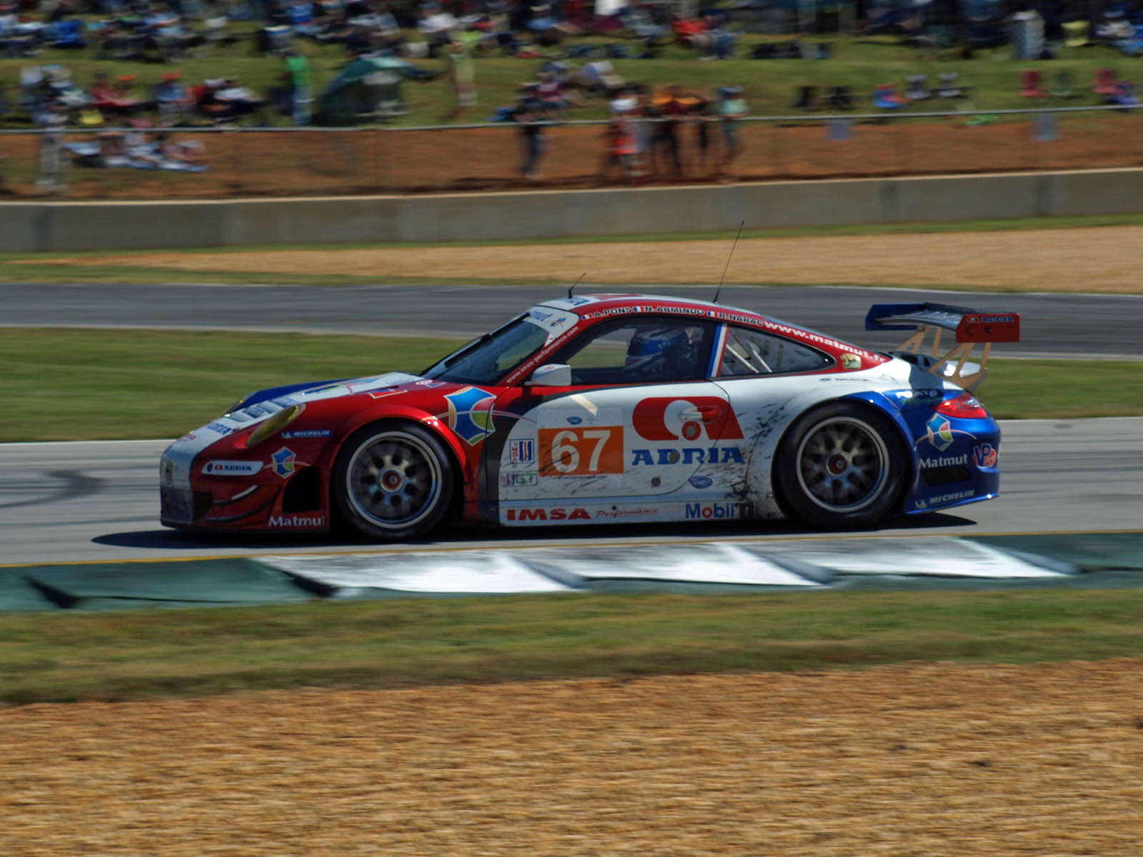 Anthony Pons in the IMSA Performance Porsche 997 GT3-RSR at the 2012 Petit Le Mans